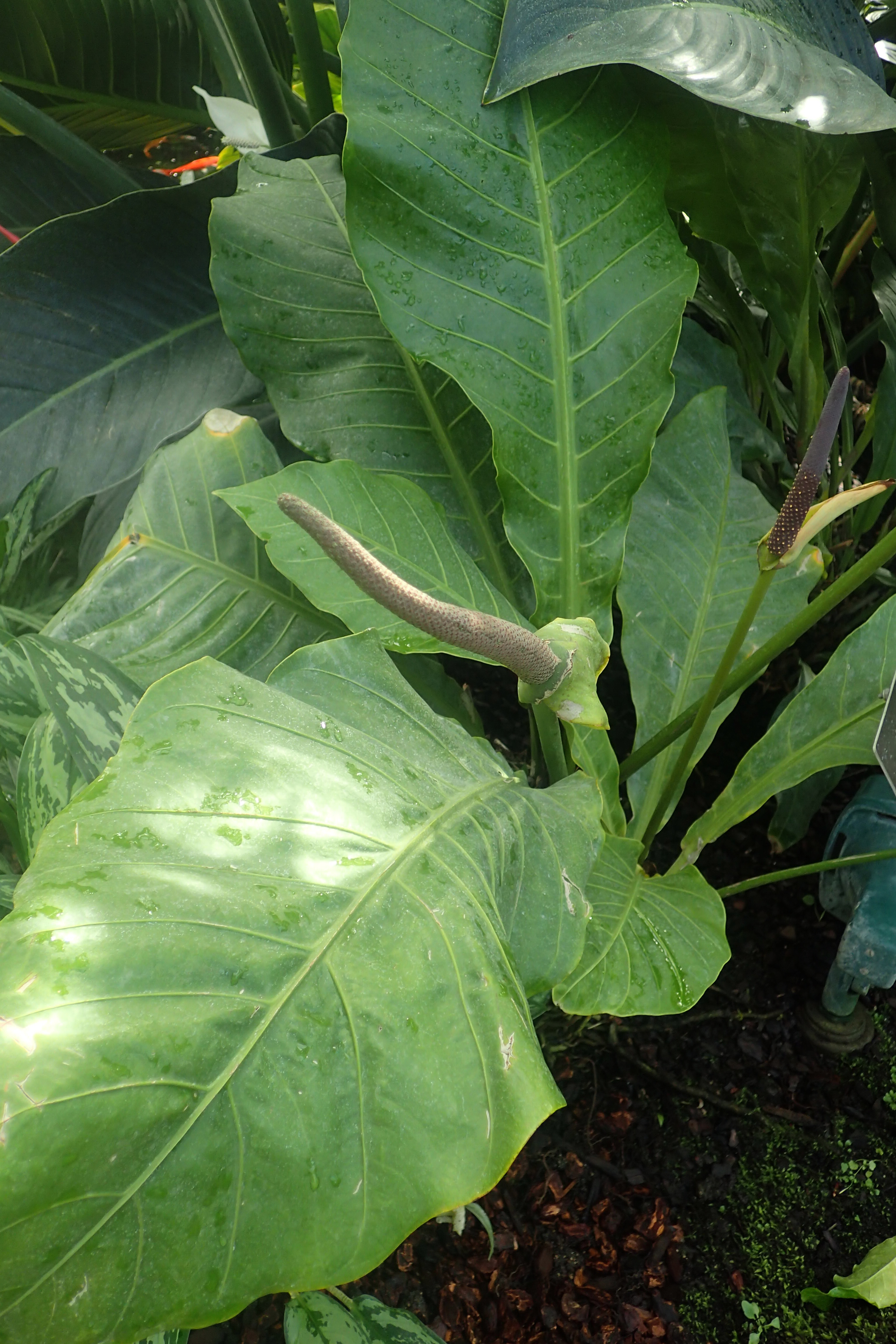 Anthurium acaule at Garfield Park Conservatory